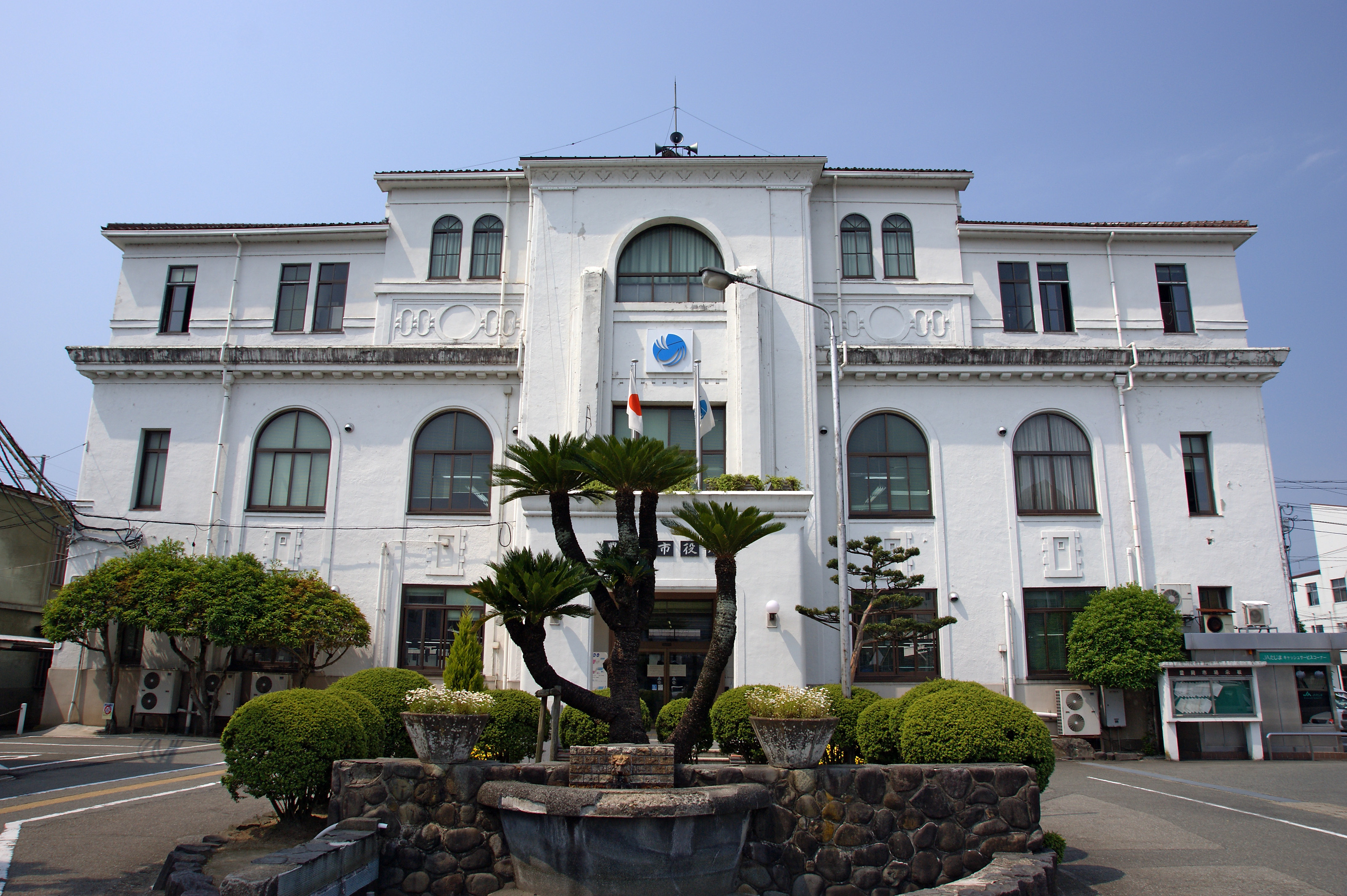 Toyooka City Government Main Office in Toyooka, Hyogo prefecture, Japan